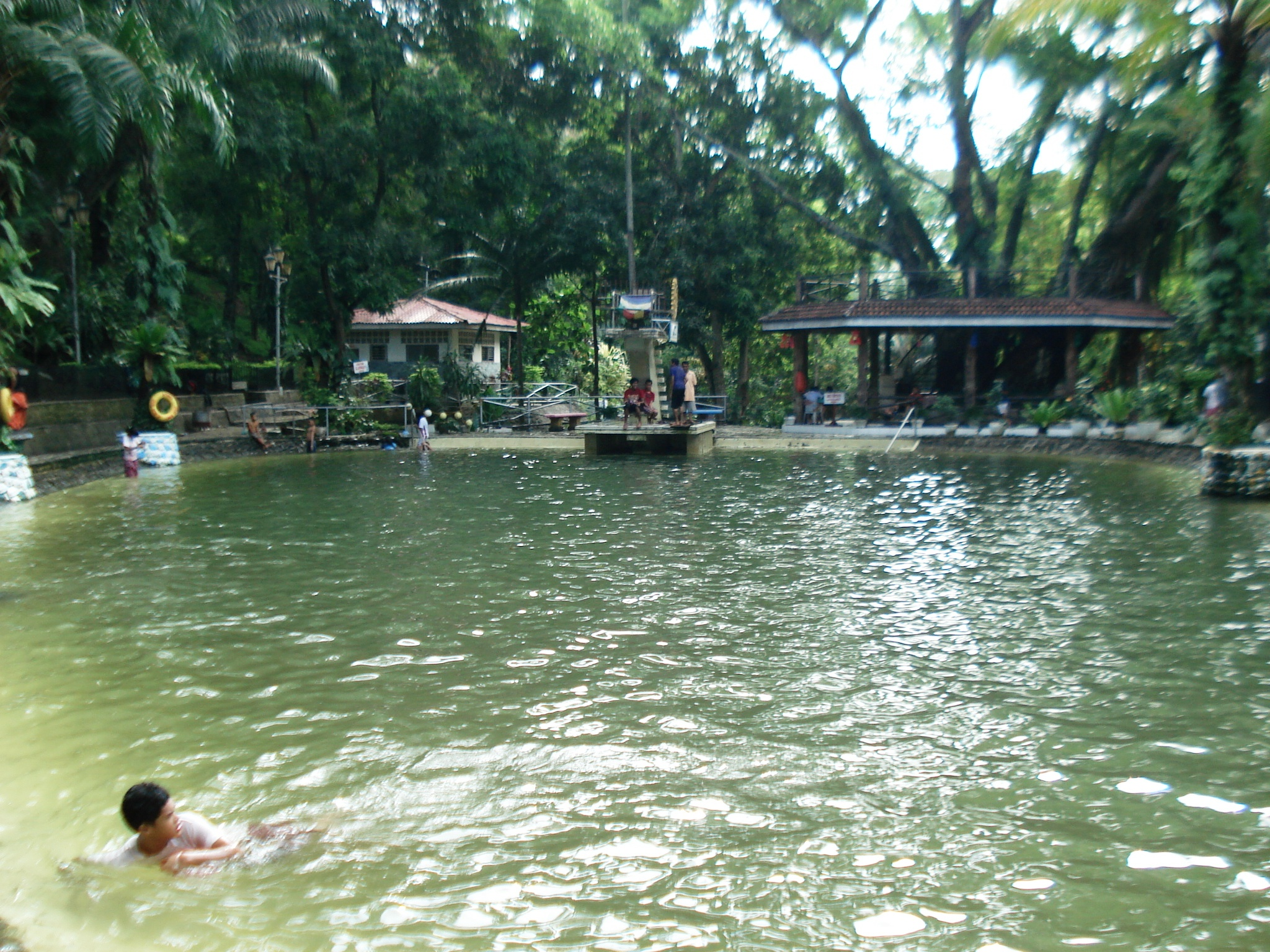 Pasonaca Main Pool Zamboanga City